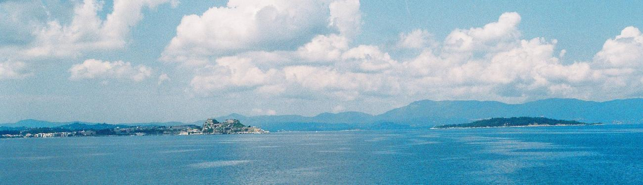 City of Corfu and Vido island. Author:Milica Markovic